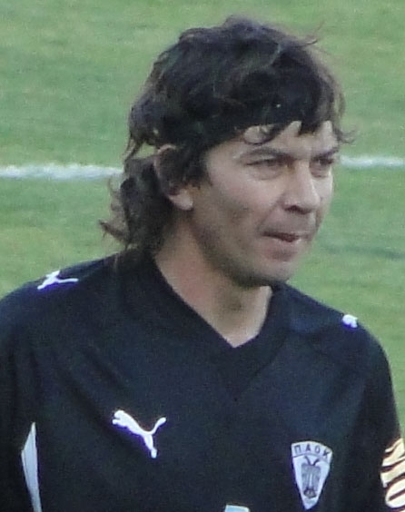 Pablo Garcia, 2010, PAOK vs Olympiakos